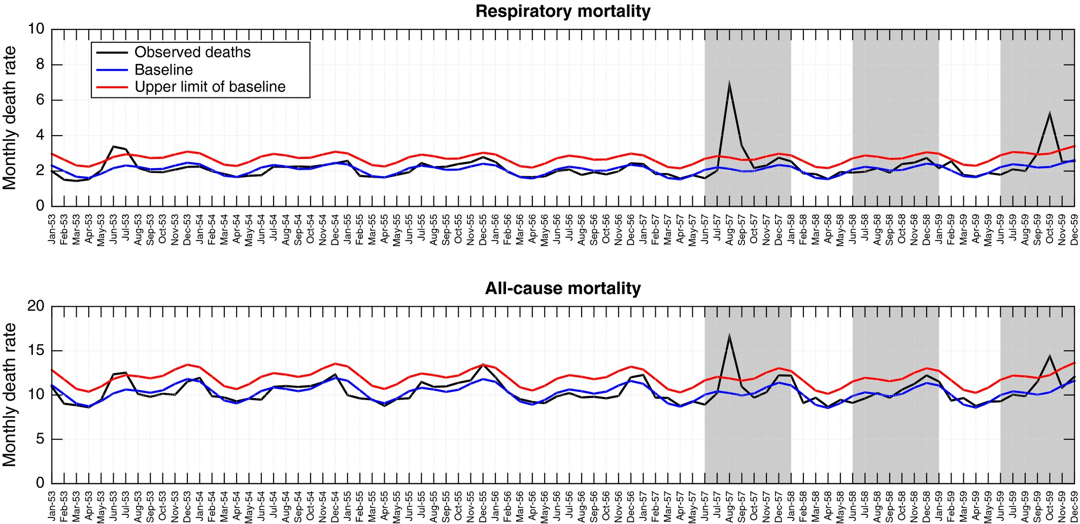 "Monthly time series of all‐cause and respiratory mortality per 10 000 people in Chile, 1953‐1959 (black curve). Shaded areas highlight three winter periods (Jun‐Dec) during 1957‐1959. The Serfling seasonal regression model baseline (blue curve) and corresponding upper limit of the 95% confidence interval of the baseline (red curve) are also shown"